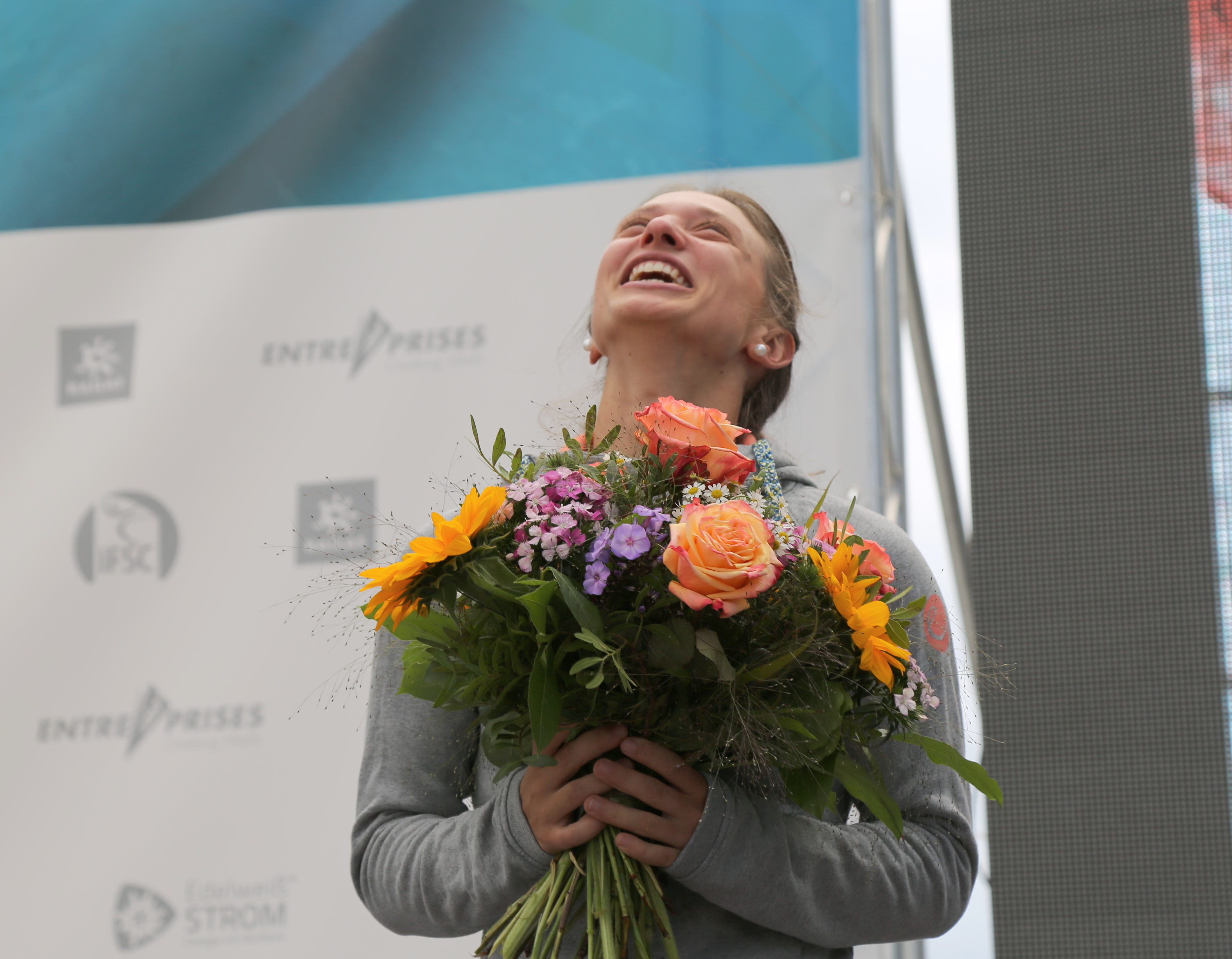 German climber Monika Retschy in Munich after resigning from competitive sports.